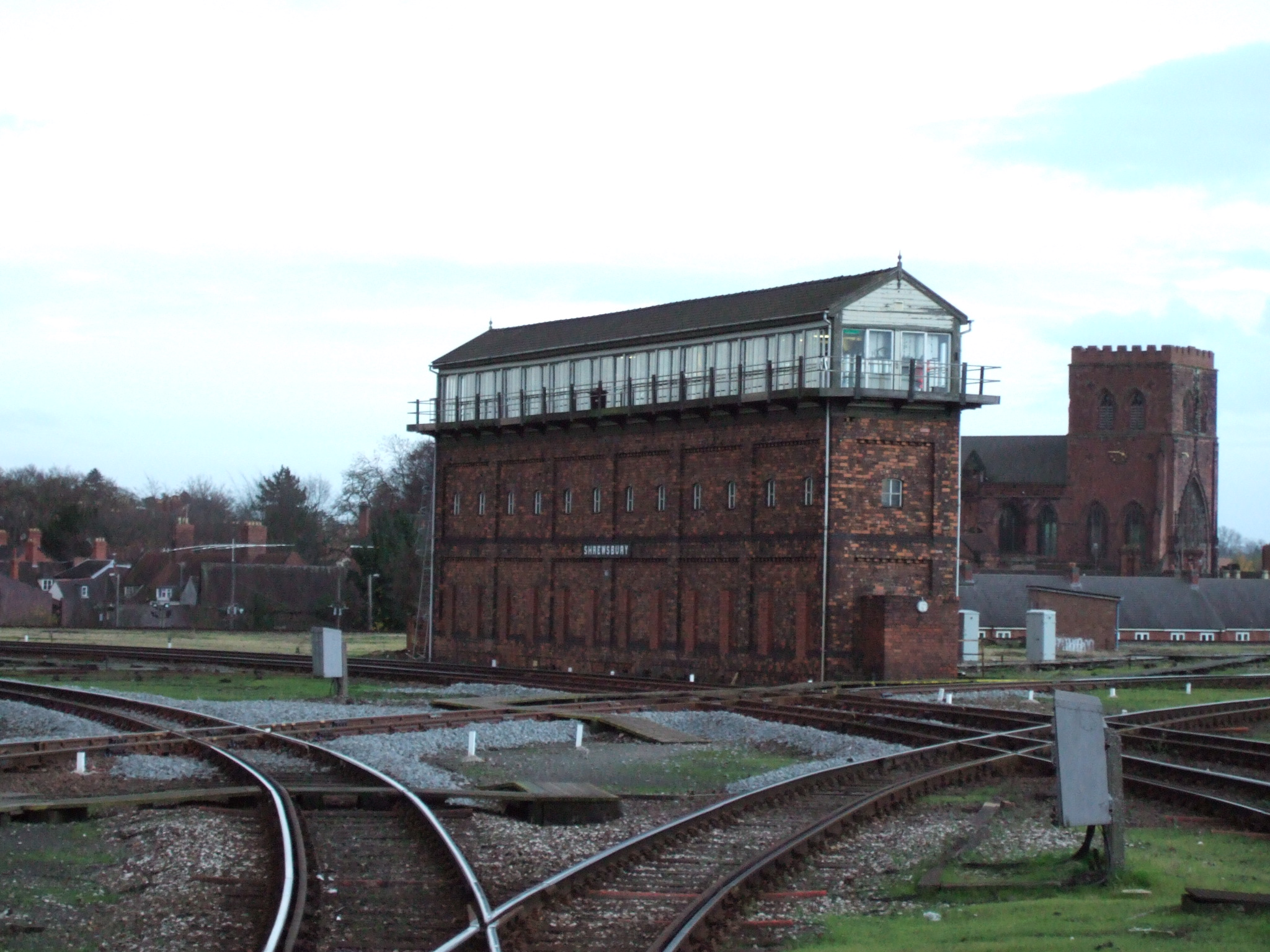 Severn Bridge Junction signal box, Shrewsbury, England. Photograph taken by David Jones in November 2006.